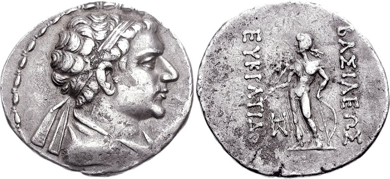 Coin of the Baktrian King Eukratides II